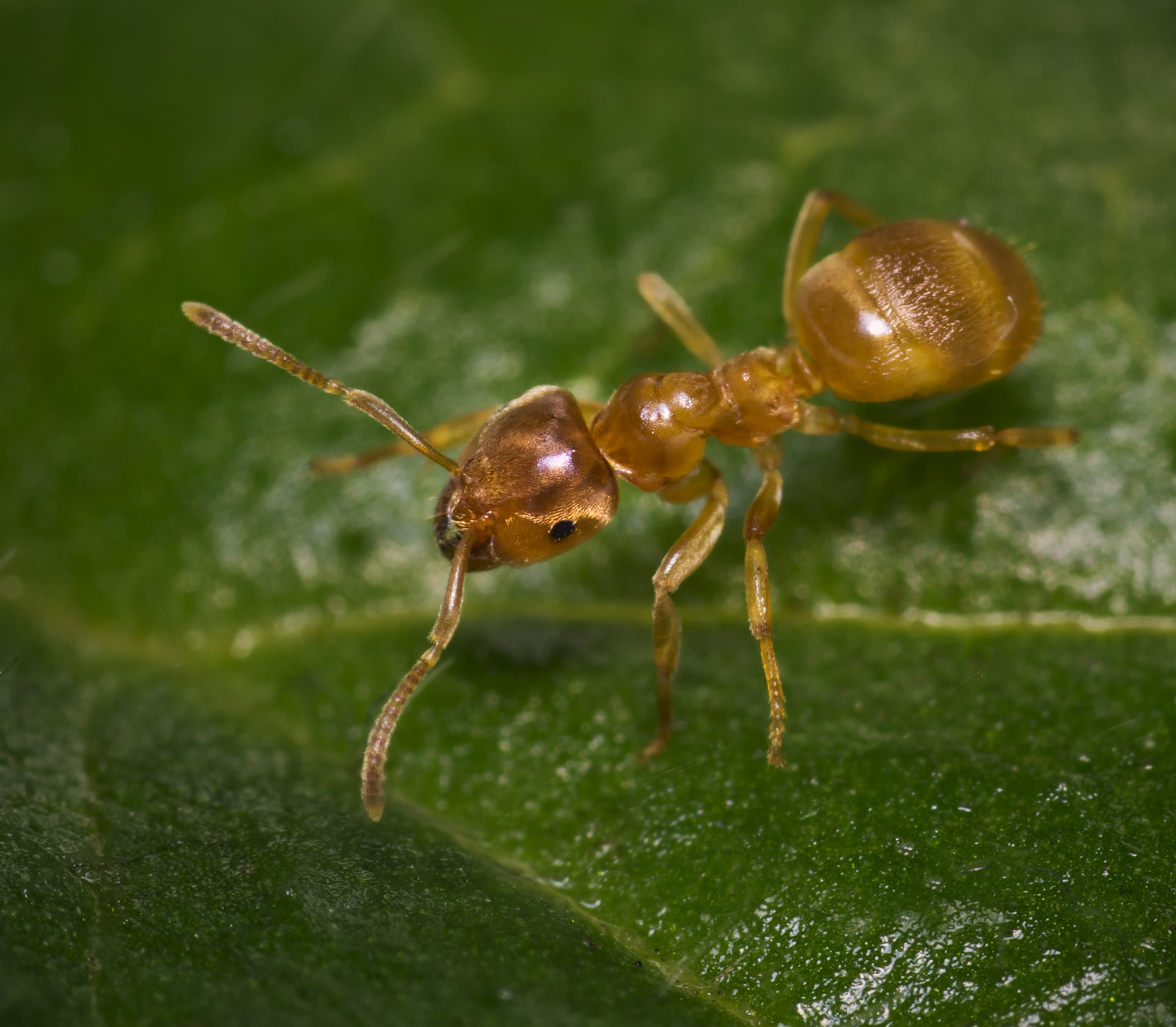 My suburban garden is tastefully landscaped with a wide variety of old boards, bricks, tiles, etc. This may not be to everyone's taste but on a day when I don't fancy travelling far, a short garden safari always yields a wide variety of Arachnids and Molluscs. A few days ago I found a thriving colony of Yellow Meadow Ants under one of the bricks. We've got quite a lot of Yellow Meadow Ants in the garden, and while I approve of them in theory, in practice our relationship is one of friction. Over the last few years they have greatly increased in our "meadow". I'm happy they're there, but they are taking over and their antheaps are real ankle breakers so they have to be dealt with. Under one of the old bricks, I'm quite happy to let them be. But when I went back to find a few for a nice warm indoors macro shoot, they'd clearly taken umbrage at me lifting "their" brick and they'd vanished. I had to dig to find this lone remainder. He stared a me angrily and would not stay still. I chased him around abortively trying to get a focus stack. Nature and the photographer in imperfect harmony. Out in the garden, the ants hatch their plans and they wait.... Yellow Meadow Ant, Lasius flavus.